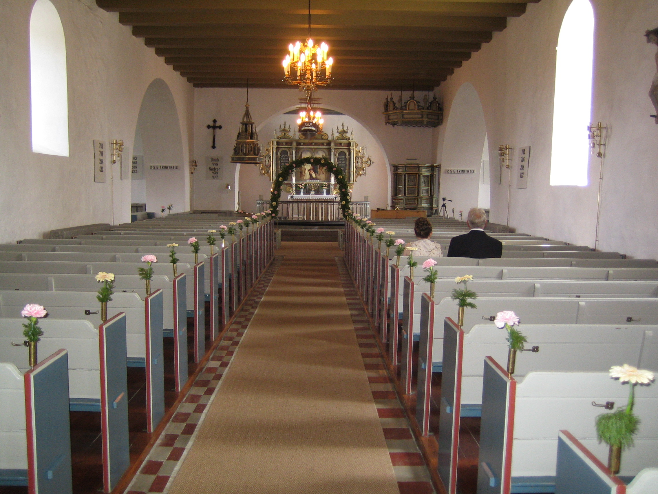 The danish church, Aulum Kirke in Vestjylland between Ringkøbing and Herning.